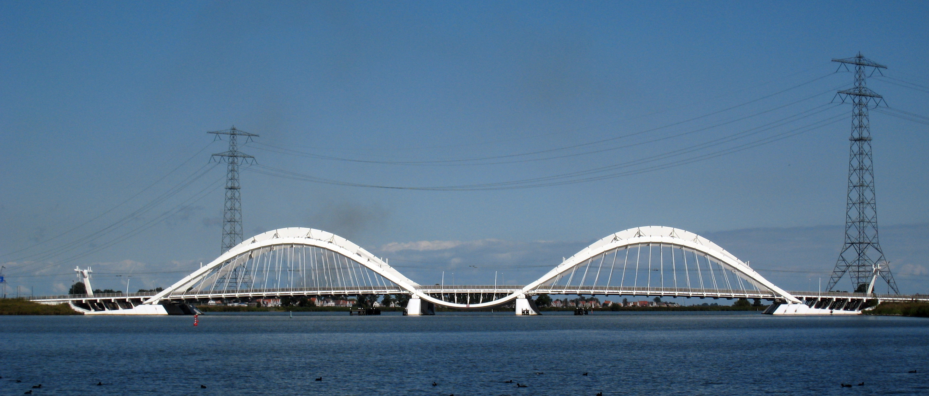 Enneus Heerma Brug (Enneus Heerma Bridge) in Amsterdam, Holland.